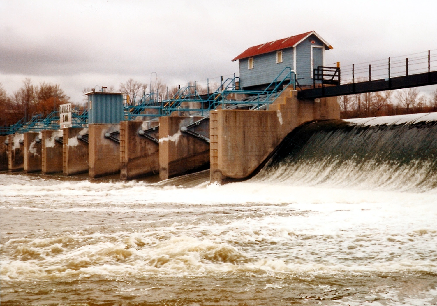 One of four dams on the Fox River in Little Chute, Wisconsin, USA. It is listed on the National Register of Historic Places as the Cedars Lock and Dam Historic District.